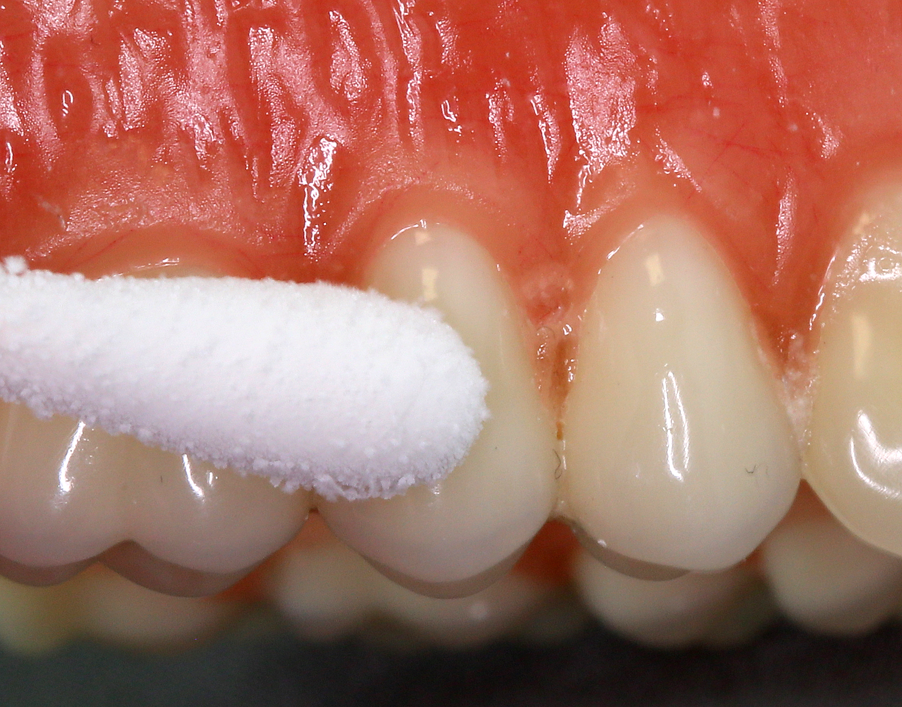 Ethyl chloride on a cotton applicator to test for a response to cold